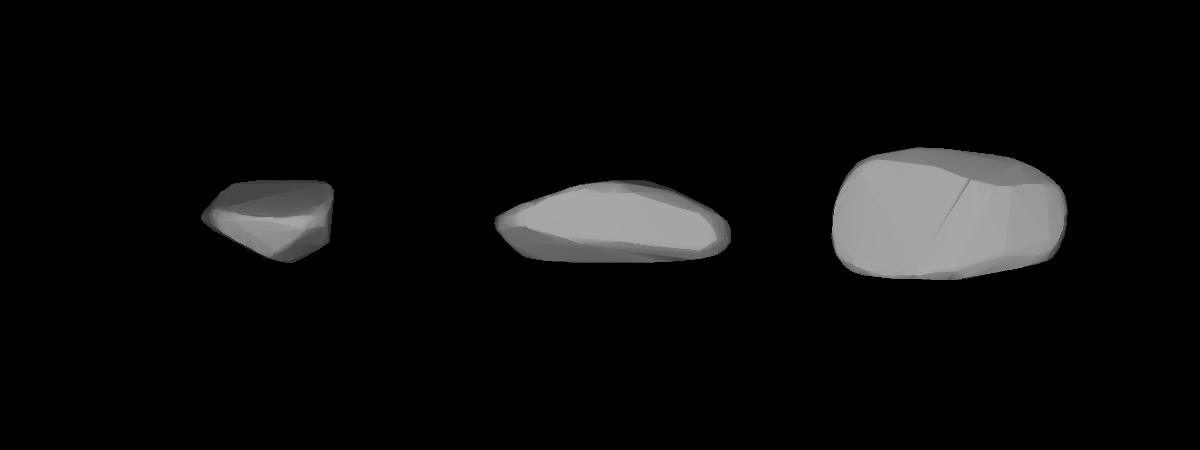 A three-dimensional model of 3678 Mongmanwai that was computed using light curve inversion techniques.